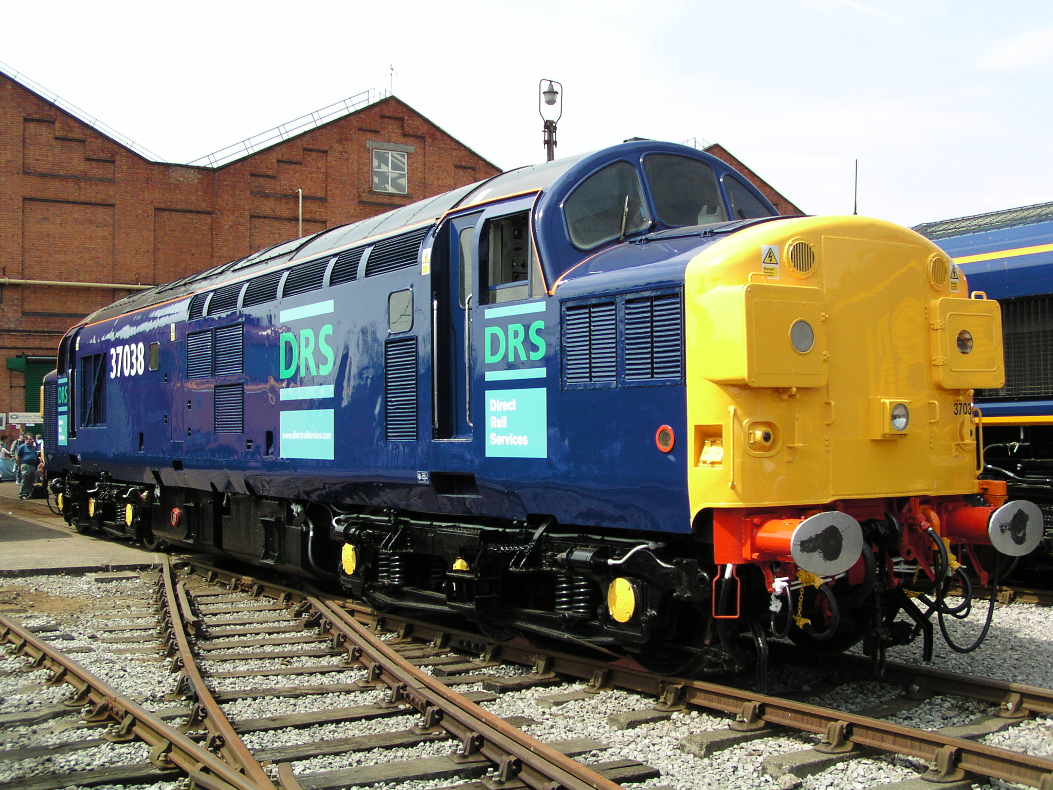 British Rail Class 37/0, no. 37038 at Crewe Works on 1 June 2003. This locomotive had recently been purchased by Direct Rail Services, whose blue livery it carries.